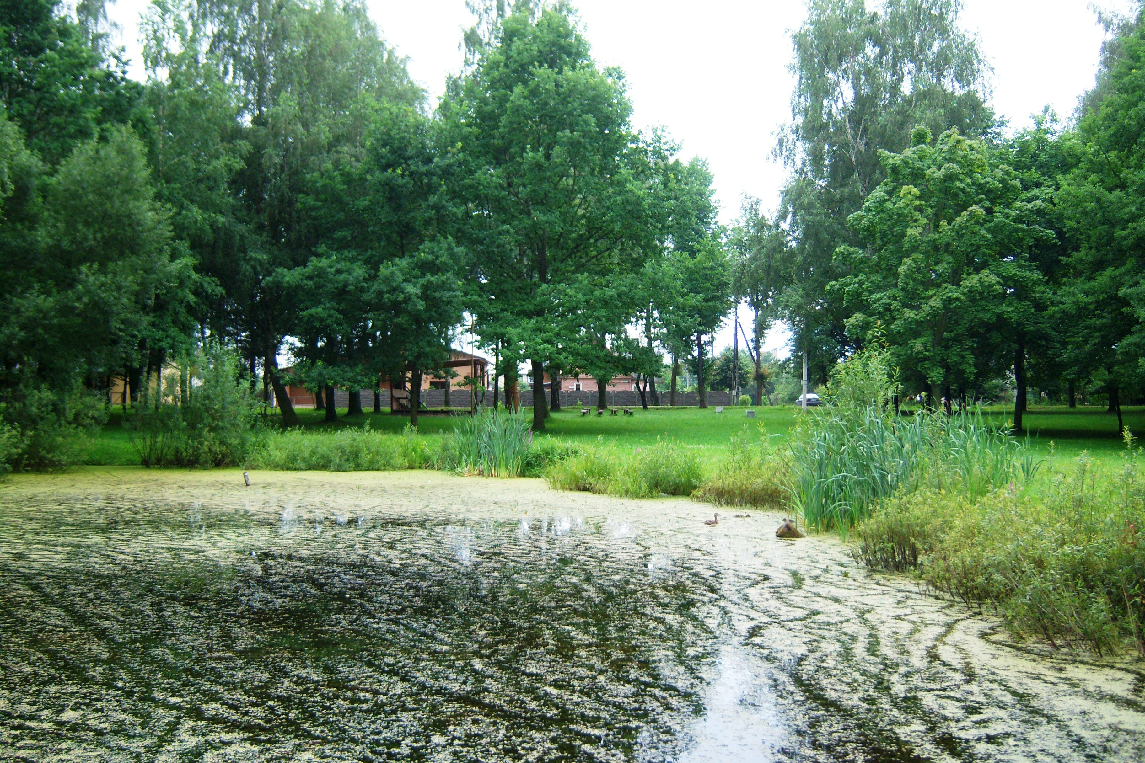 Pond in Naugardiškės park, Kaunas, Lithuania